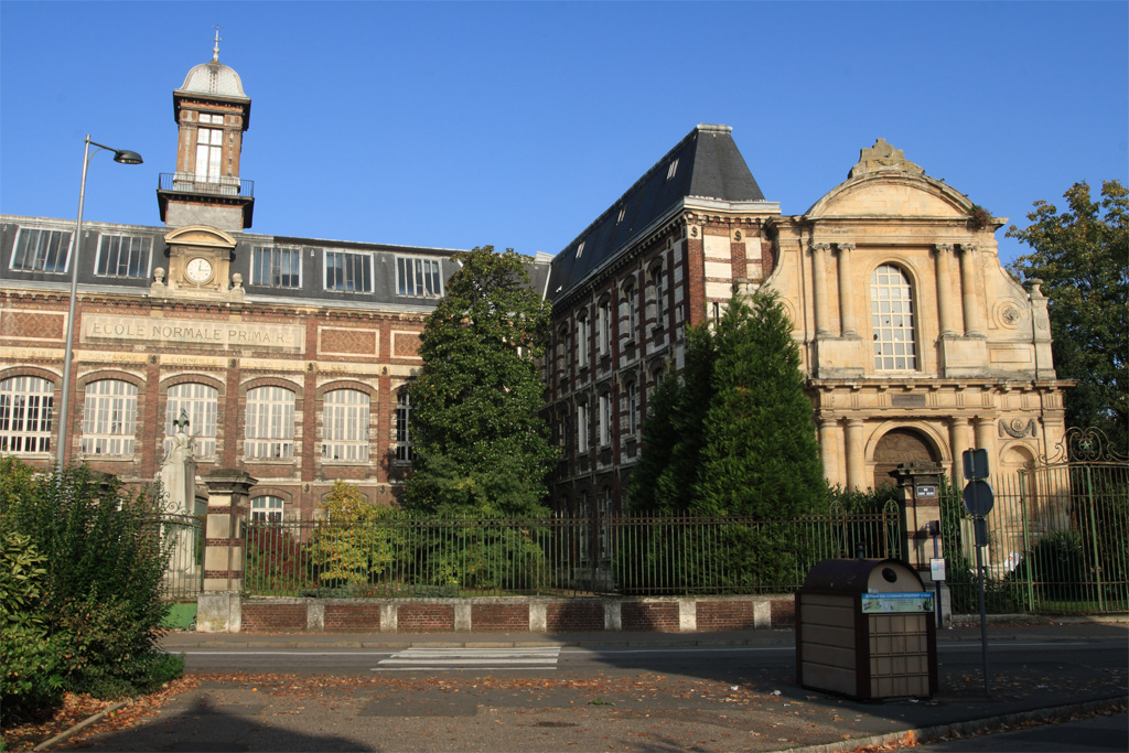 Manor of Saint-Yon, Rouen, France